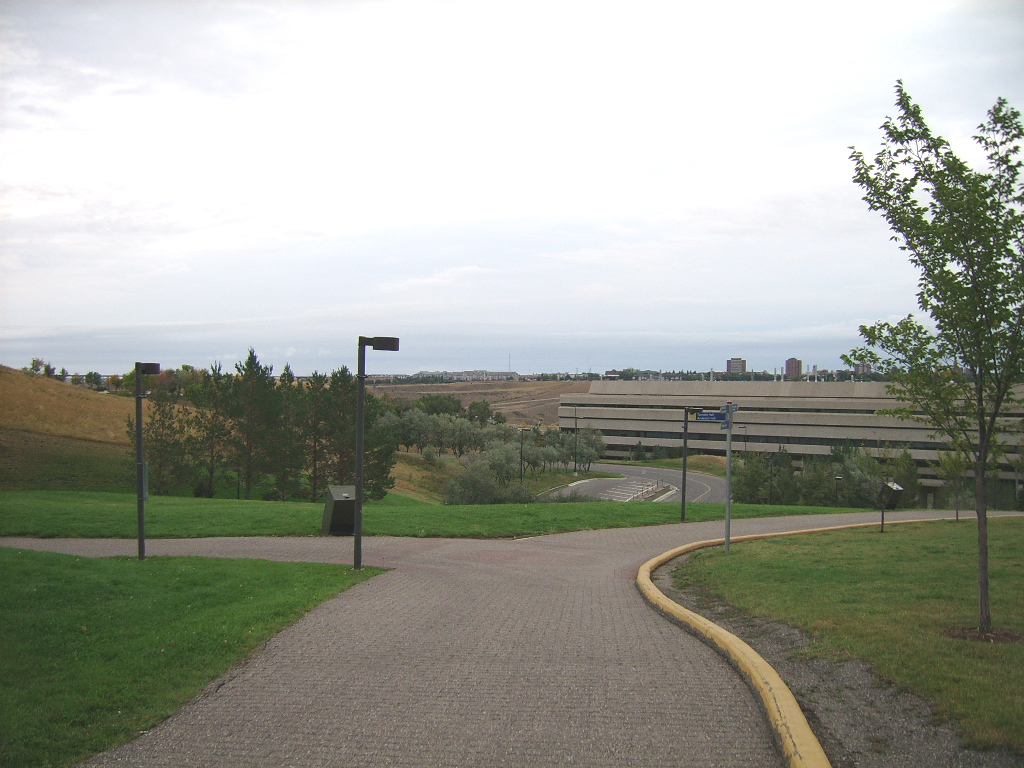 Photograph of the northern section of University Hall at the University of Lethbridge, Lethbridge, Alberta, Canada. Taken from the top of the path leading to University Hall and the Fine Arts Centre. Brightened by 33% in Adobe Photoshop CS2.